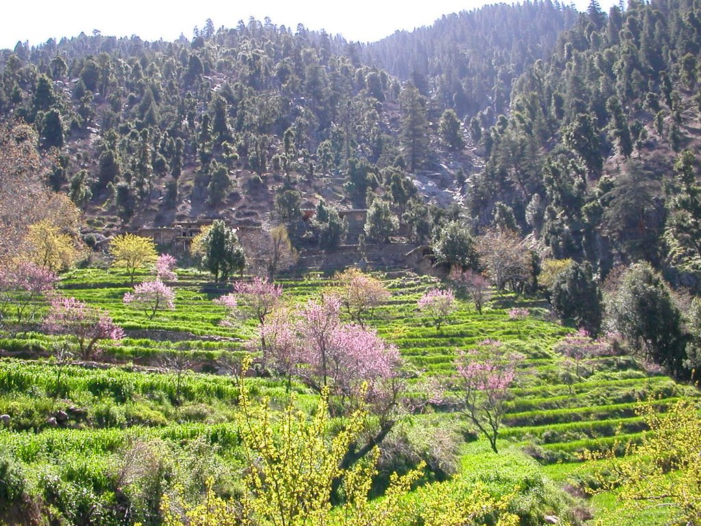 Eastern Afghanistan